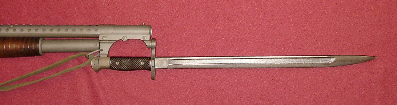 U.S. military bayonet of the Vietnam War. M1917 Bayonet affixed to the Winchester Model 12 Combat Shotgun.